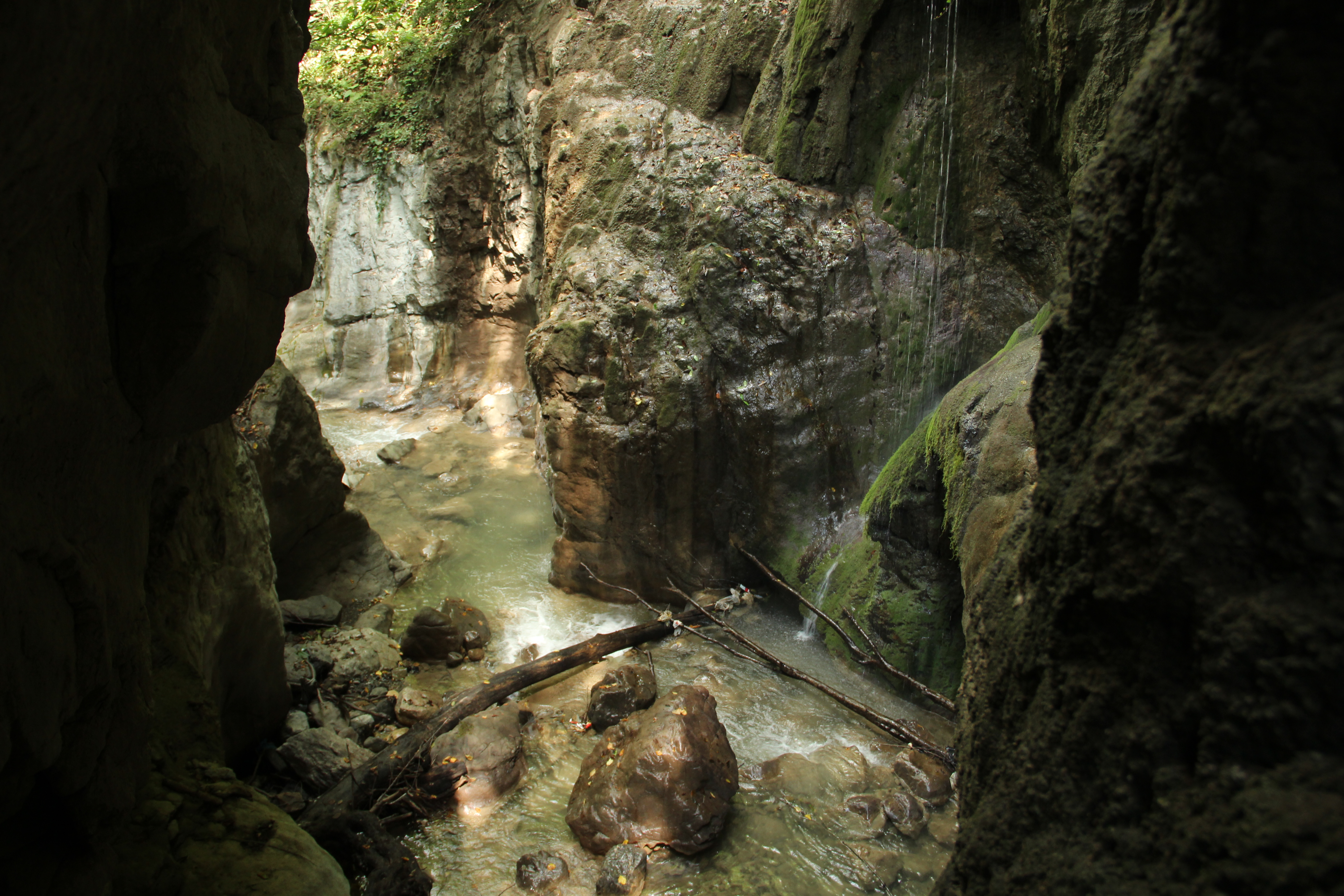 Turkey, Kocaeli, Samandere Waterfall